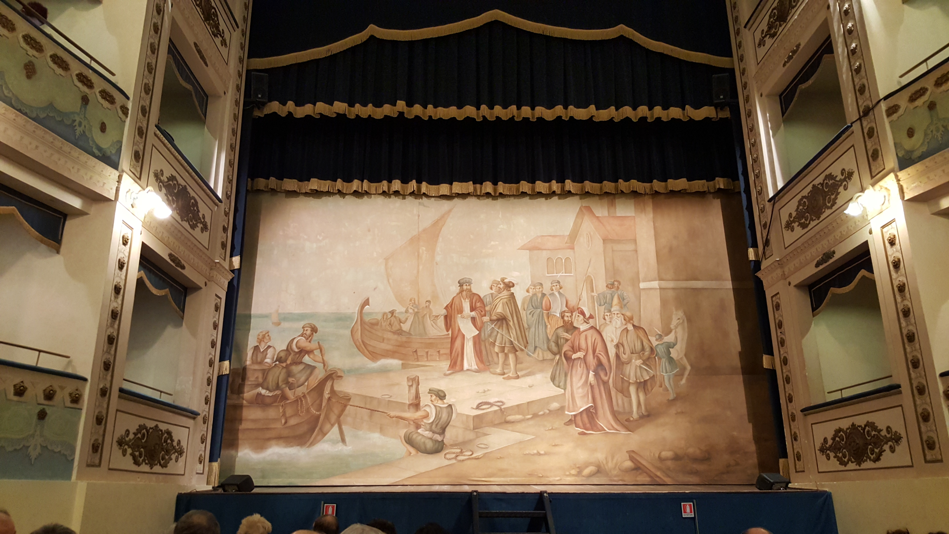 This is a photo of a monument which is part of cultural heritage of Italy.